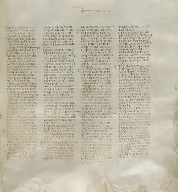 page of the codex with text of Matthew 8:28-9:23